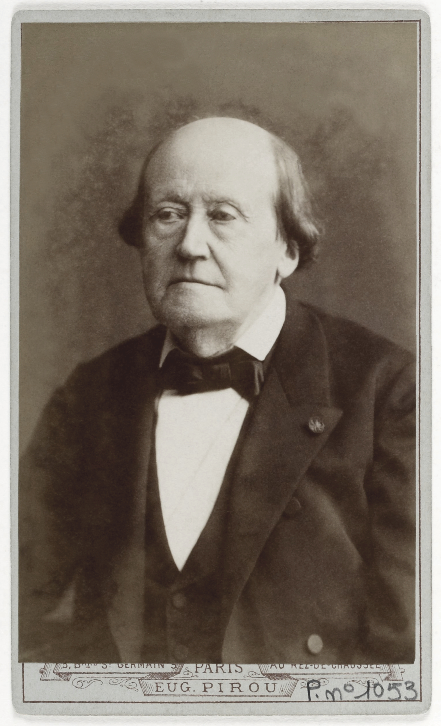 Henri Milne Edwards (1800-1885), french physician, naturalist and biologist, professor at the Muséum National d'Histoire Naturelle, Dean of the Faculty of Sciences of Paris.